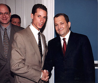 U.S. Rep. Anthony Weiner (left) meets with Israeli Prime Minister Ehud Barak.